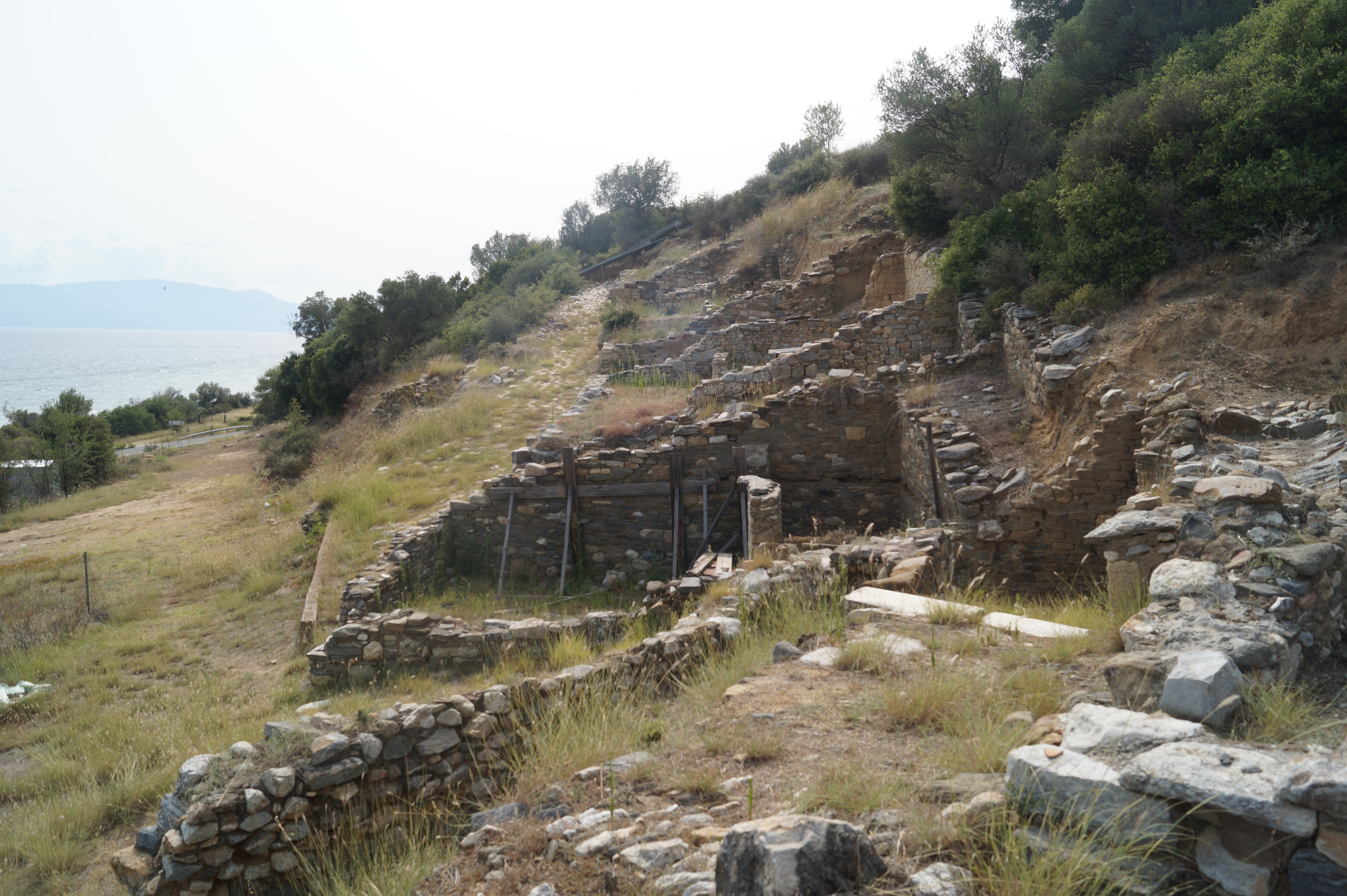 Amphipoli, Makedonia, Greece: Archaic houses of Argilos.